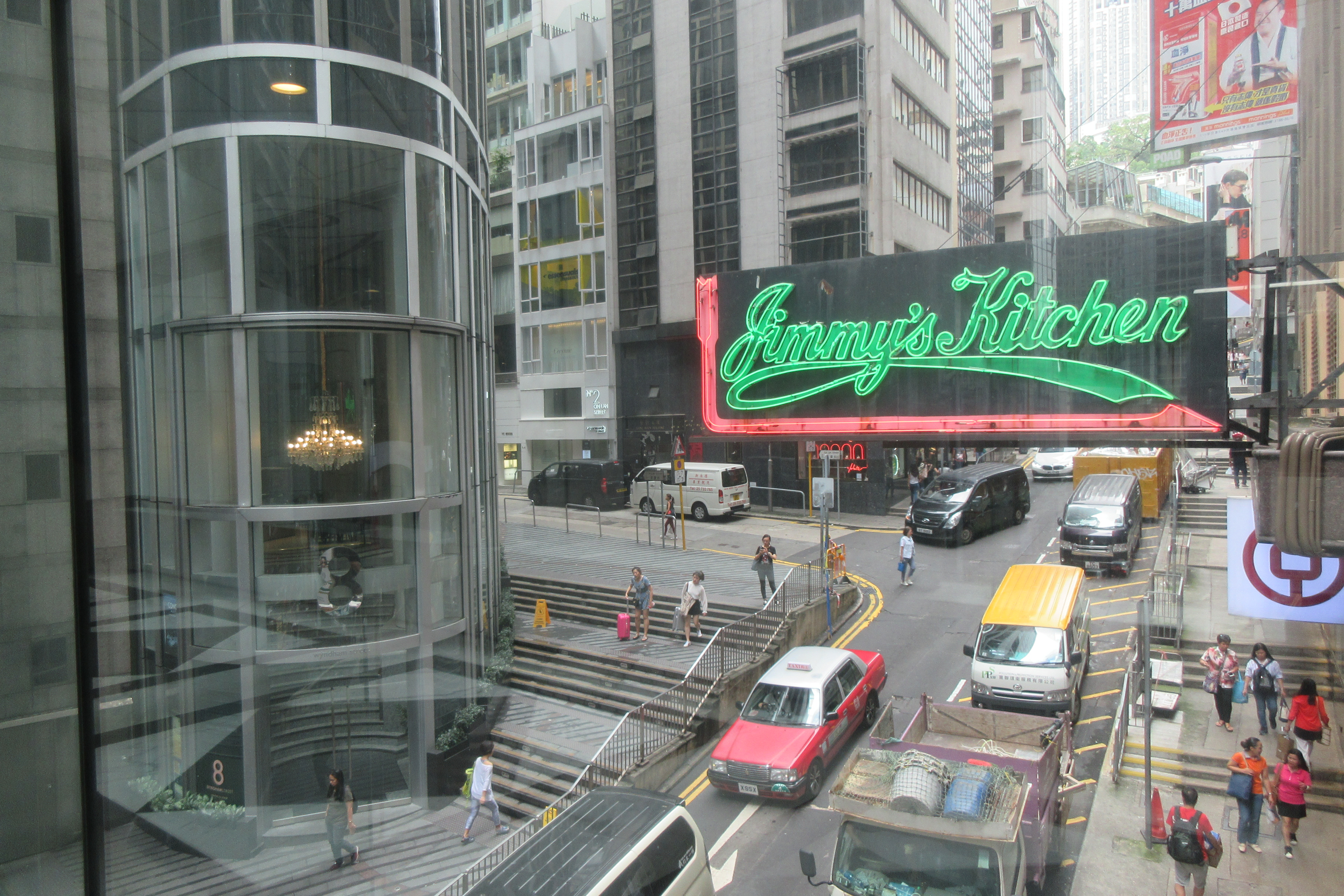 HK 中環 Central view from footbridge 雪廠街 Ice House Street in June 2019